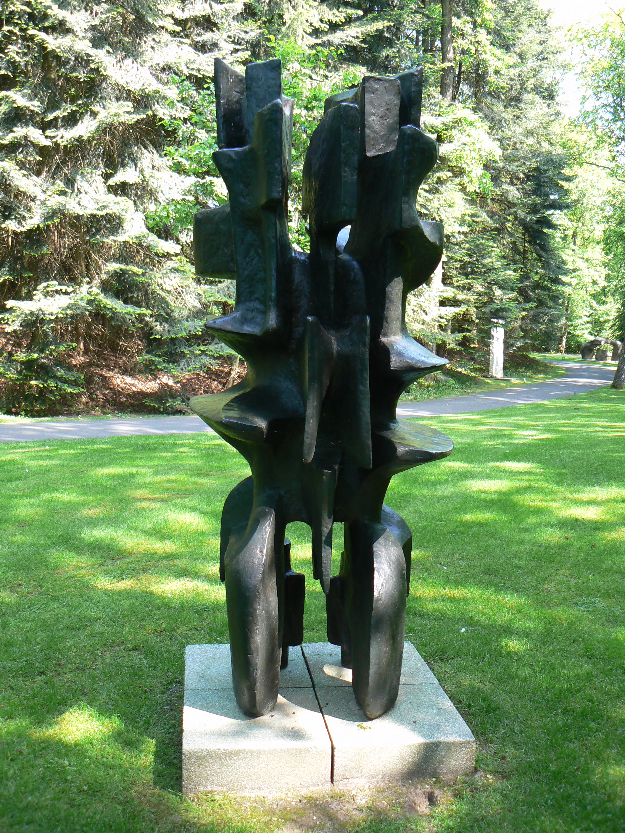 sculpture Grand double (1962/4) by Alicia Penalba in KMM Sculpturepark/The Netherlands